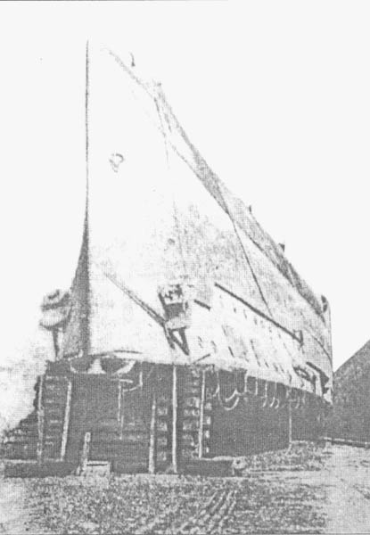 SMS Moltke in drydock at Rosyth 1928-1929